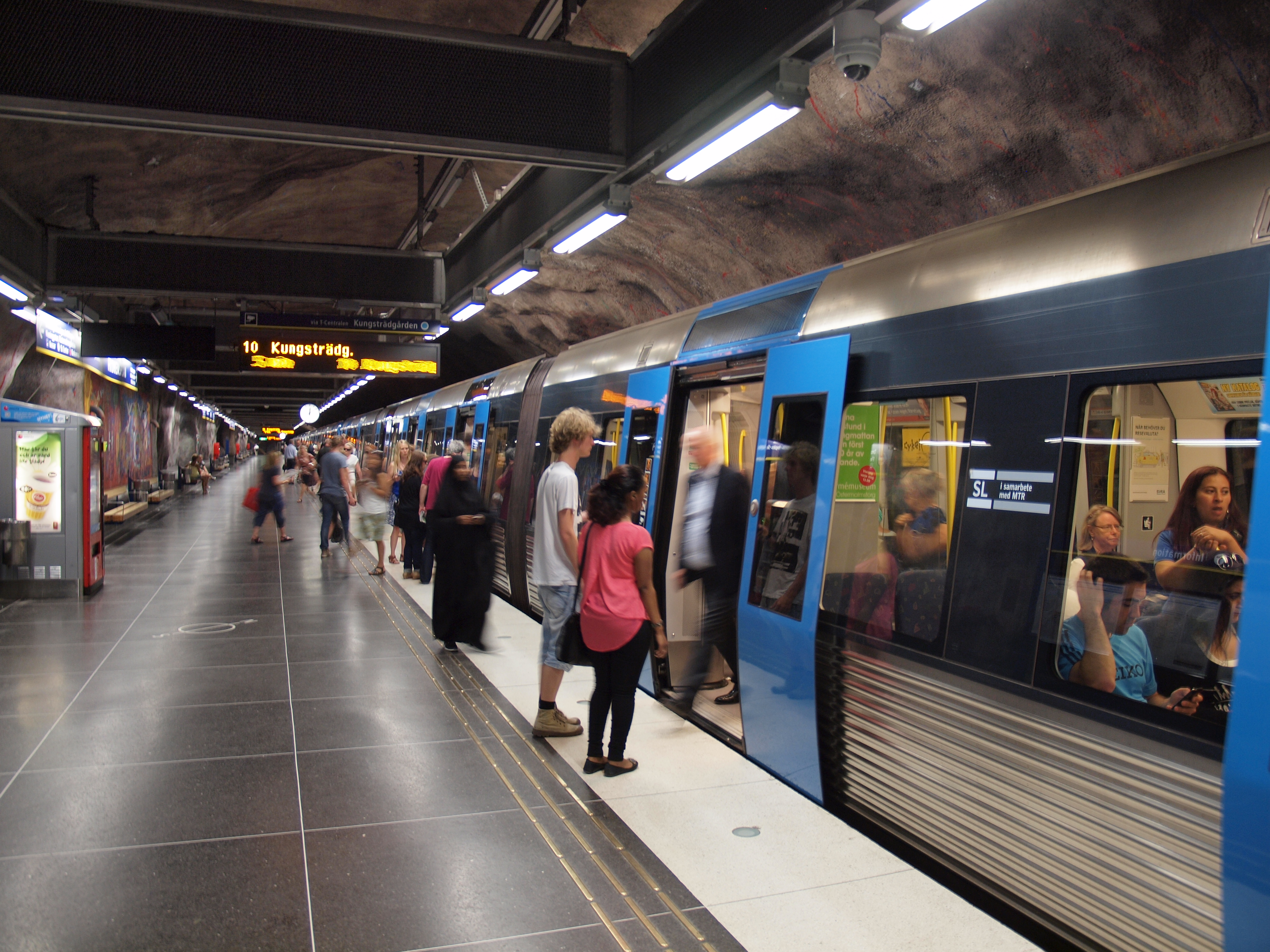 Fridhemsplan metro station on the Stockholm Metro in Stockholm, Sweden. A metro train going towards Kungsträdgården metro station has just arrived at the station.